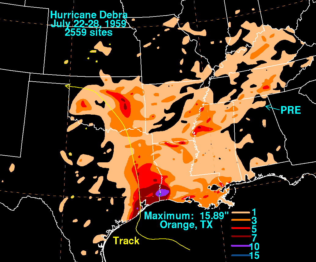 Storm total rainfall map of Hurricane Debra during July 1959.